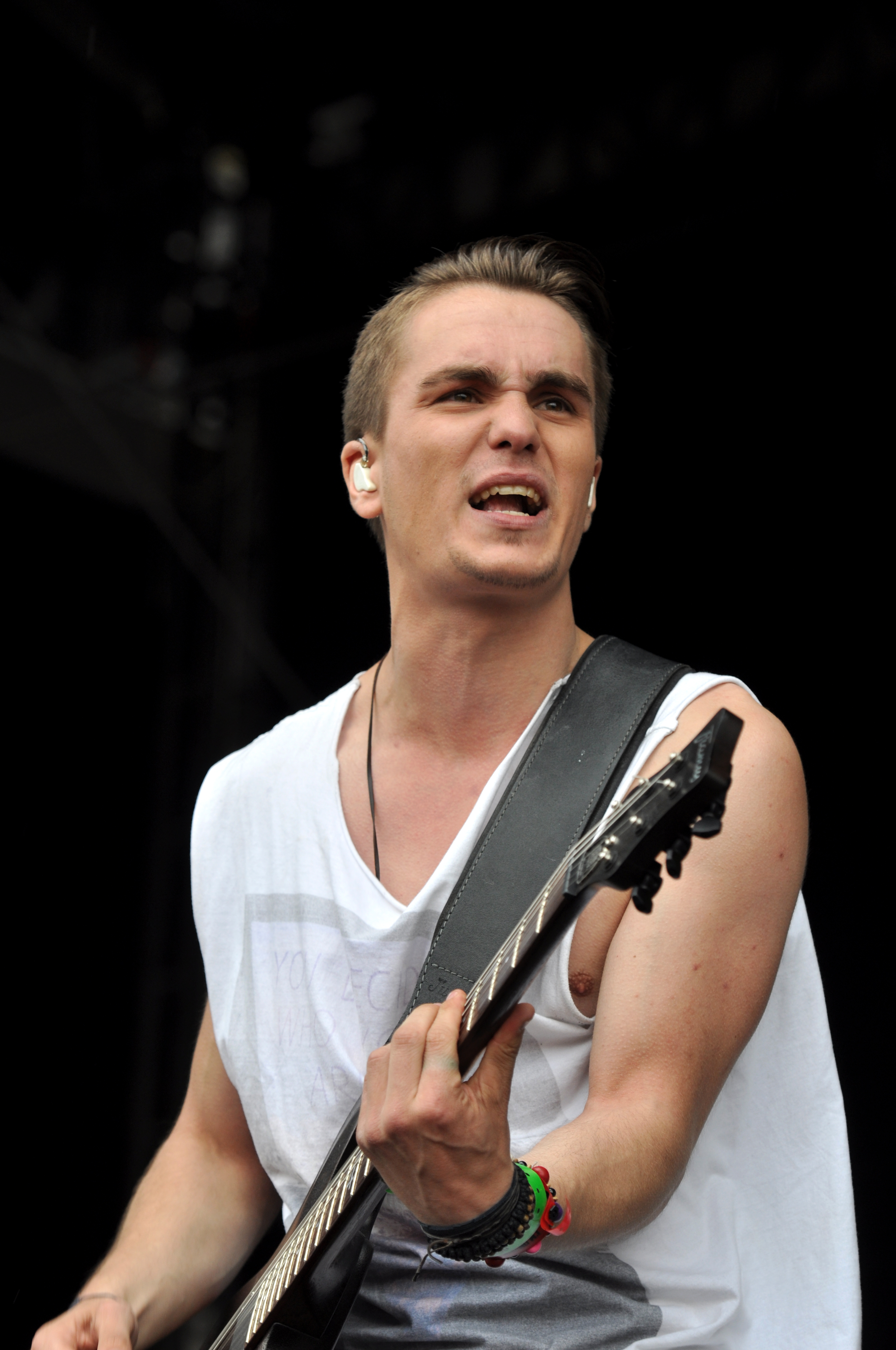 The german Band Killerpilze at Rock am Ring 2013